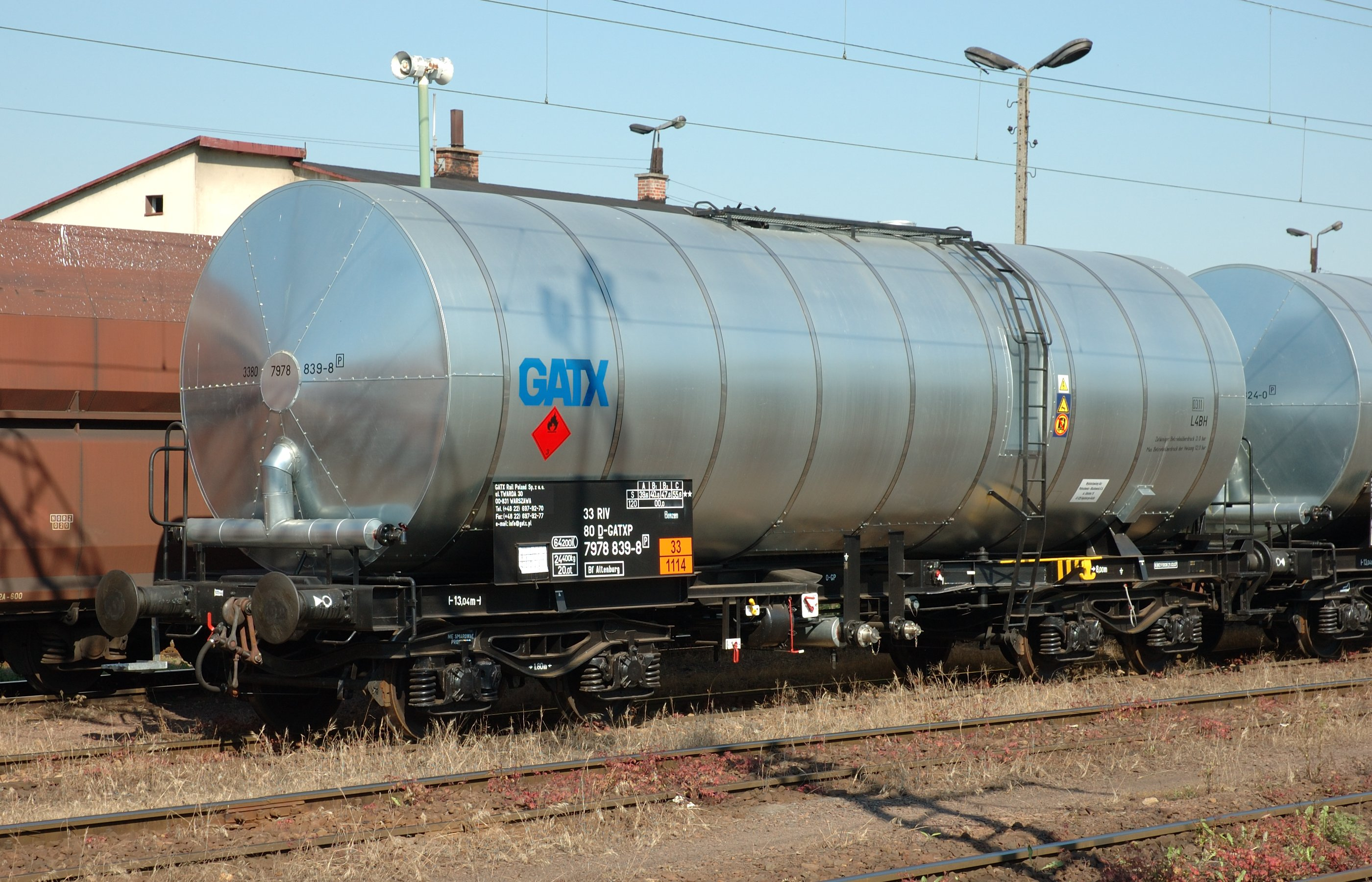 Tank wagon No. 33 80 7988 839-8 of GATX Rail Poland loaded by benzene, Chałupki railway station, Poland